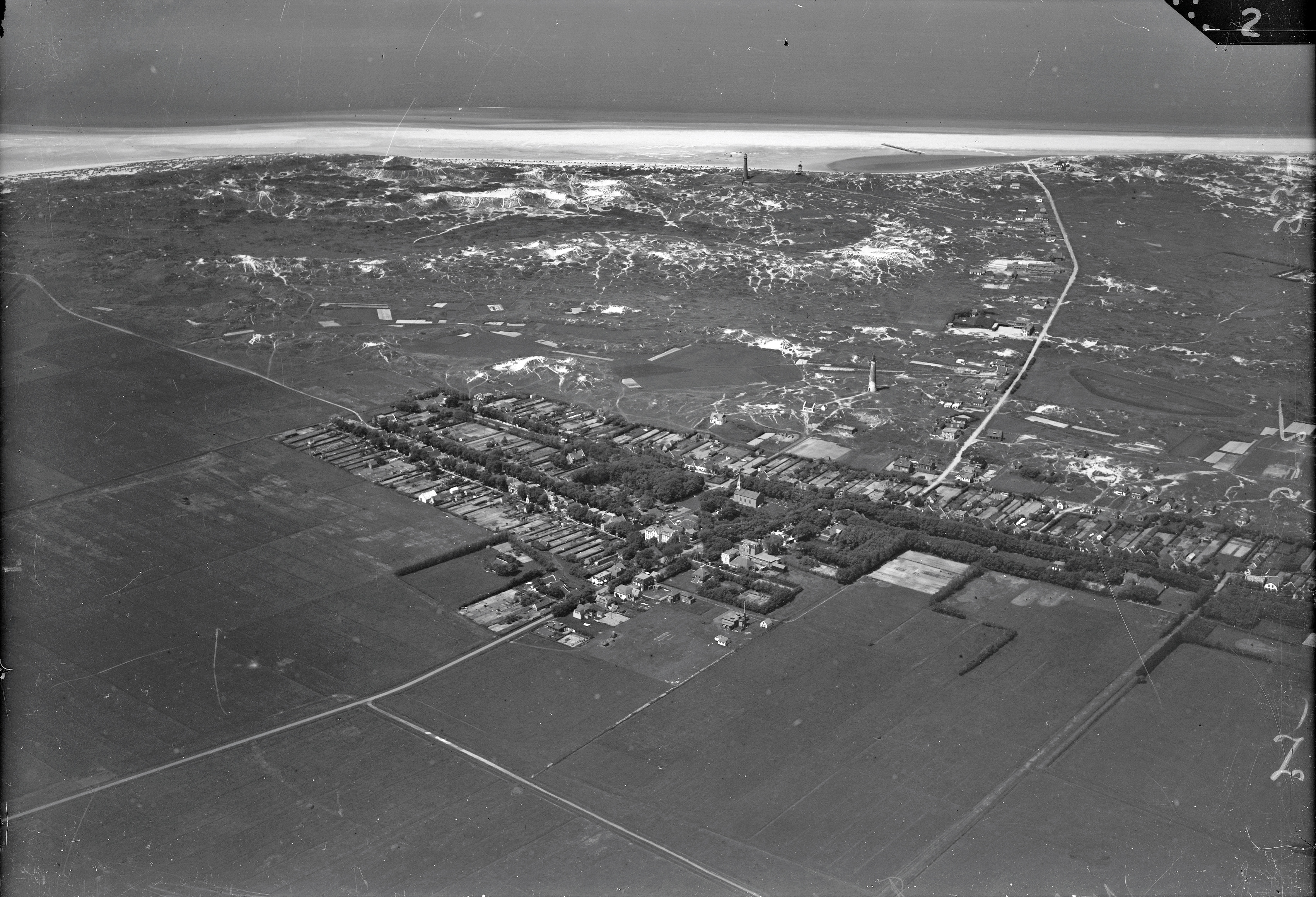 Aerial photograph of Schiermonnikoog, The Netherlands